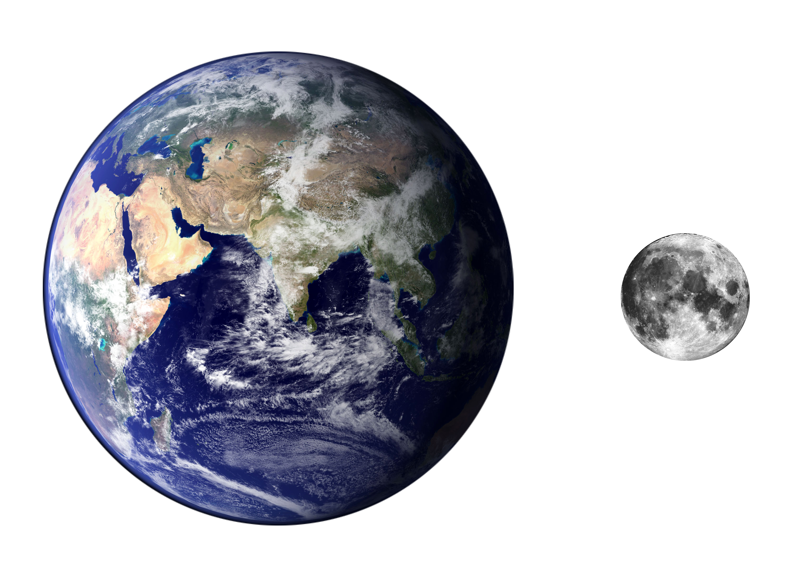 A Image that compares the Moon to Earth. ± 0.37 pixel